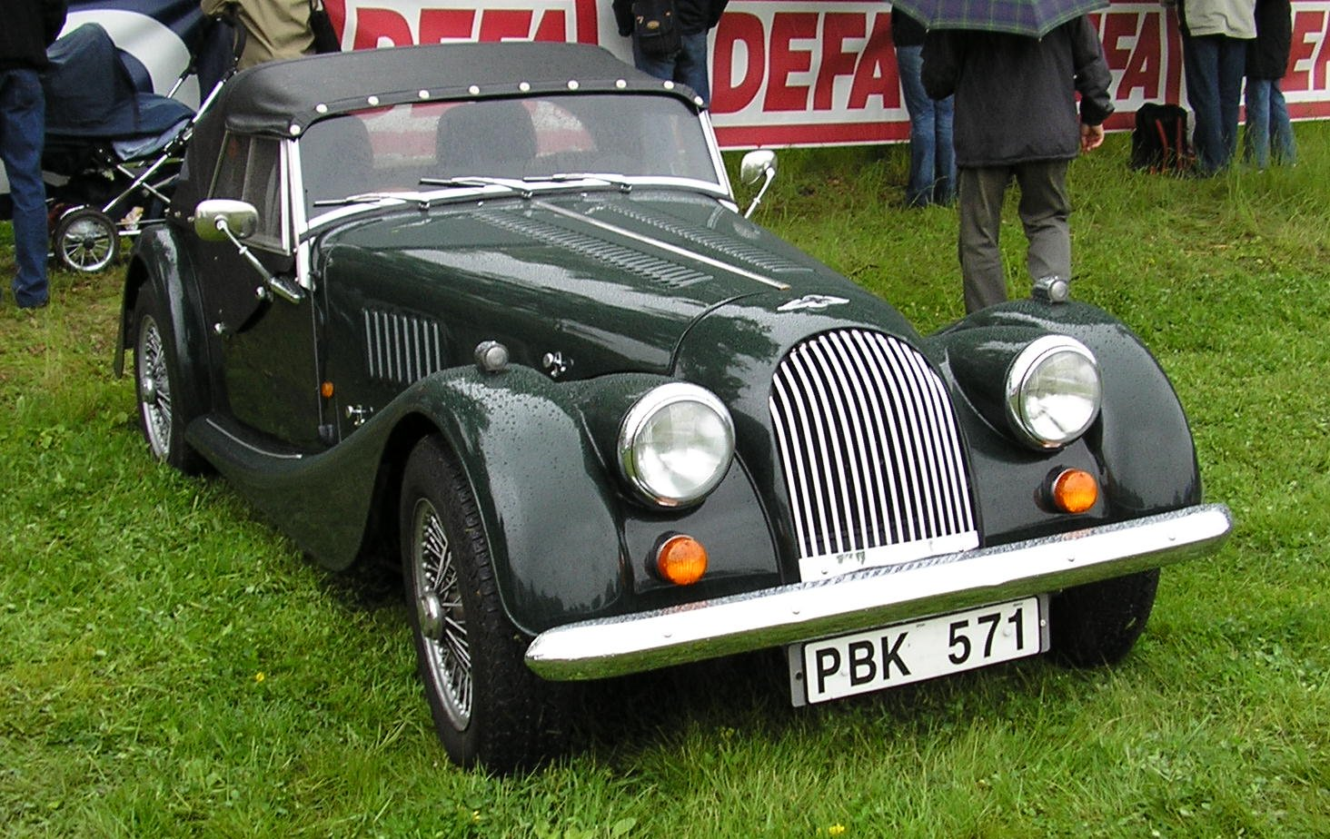 A 1995 Morgan 4/4. Photographed by myself at Prins Bertil Memorial in Stockholm, Sweden 2005.